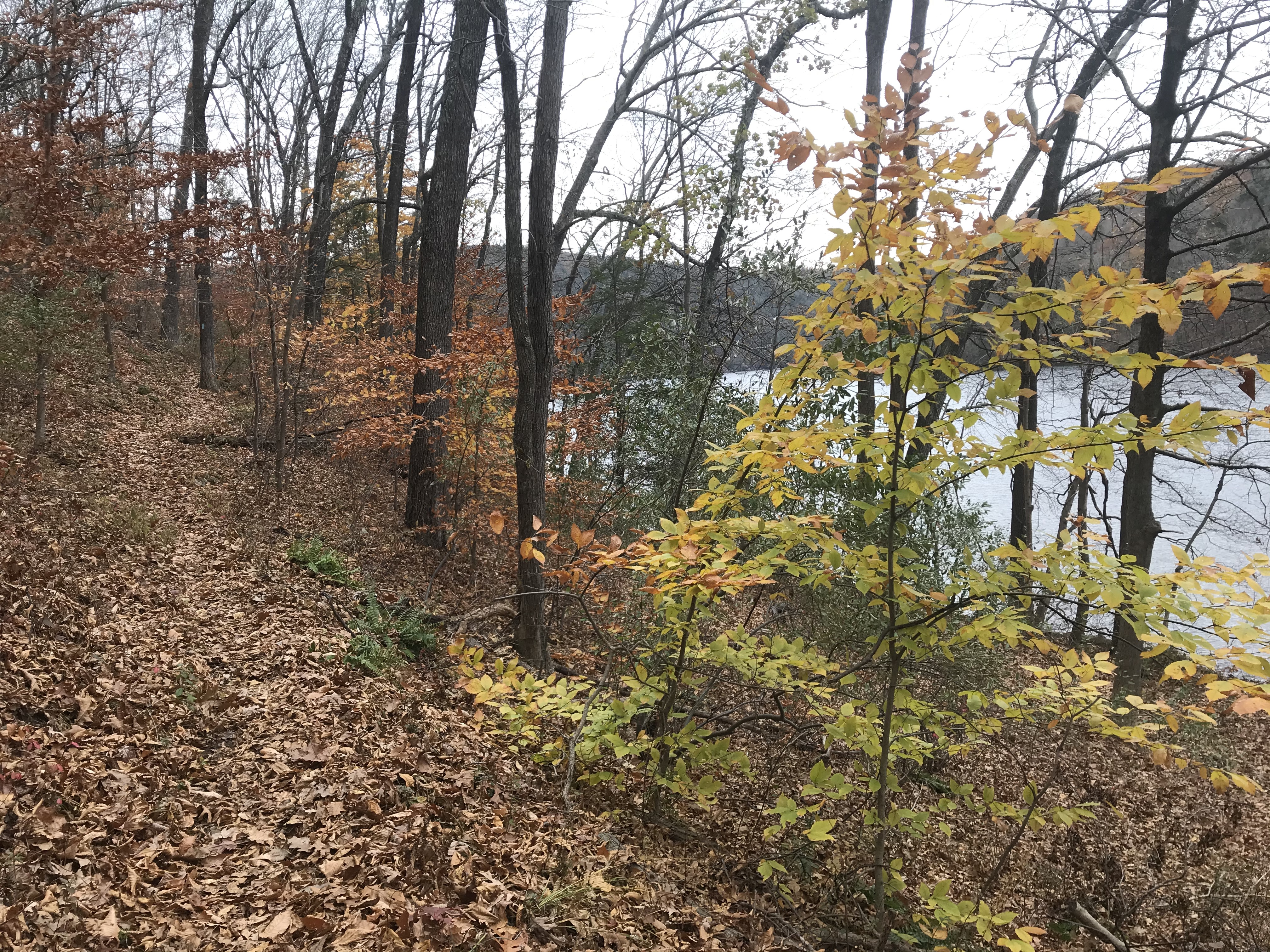 View from Kettletown State Park's Crest Trail of the Housatonic River's Lake Zoar looking south towards Oxford.